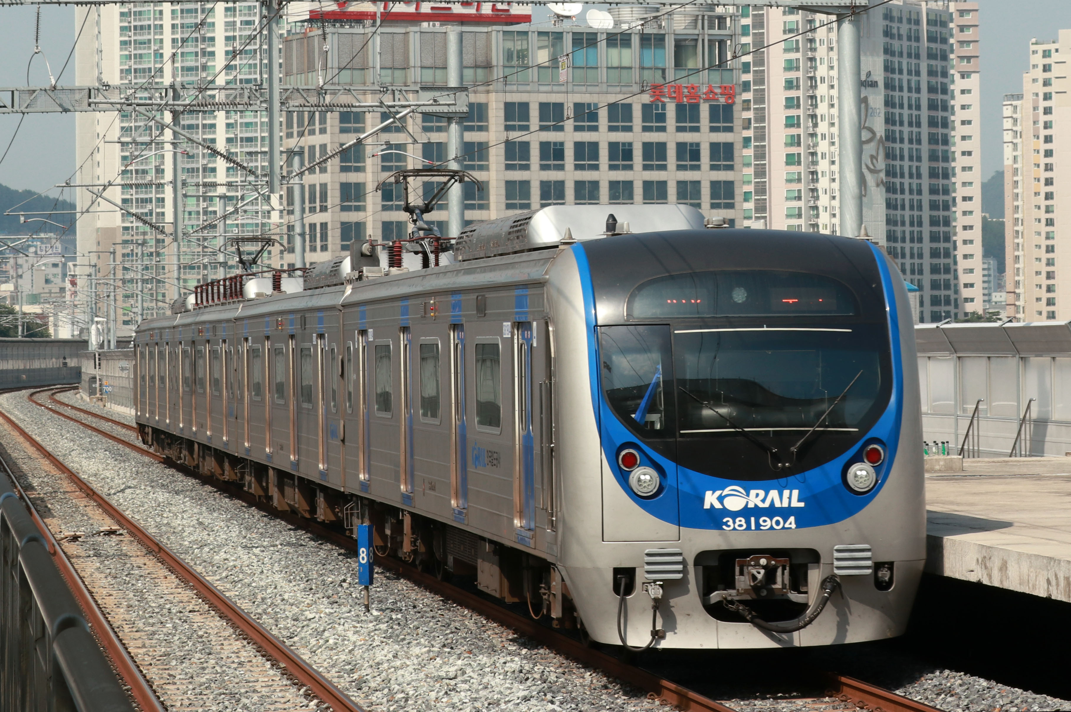 Korail Class 381000 train approaches Geojae Station.